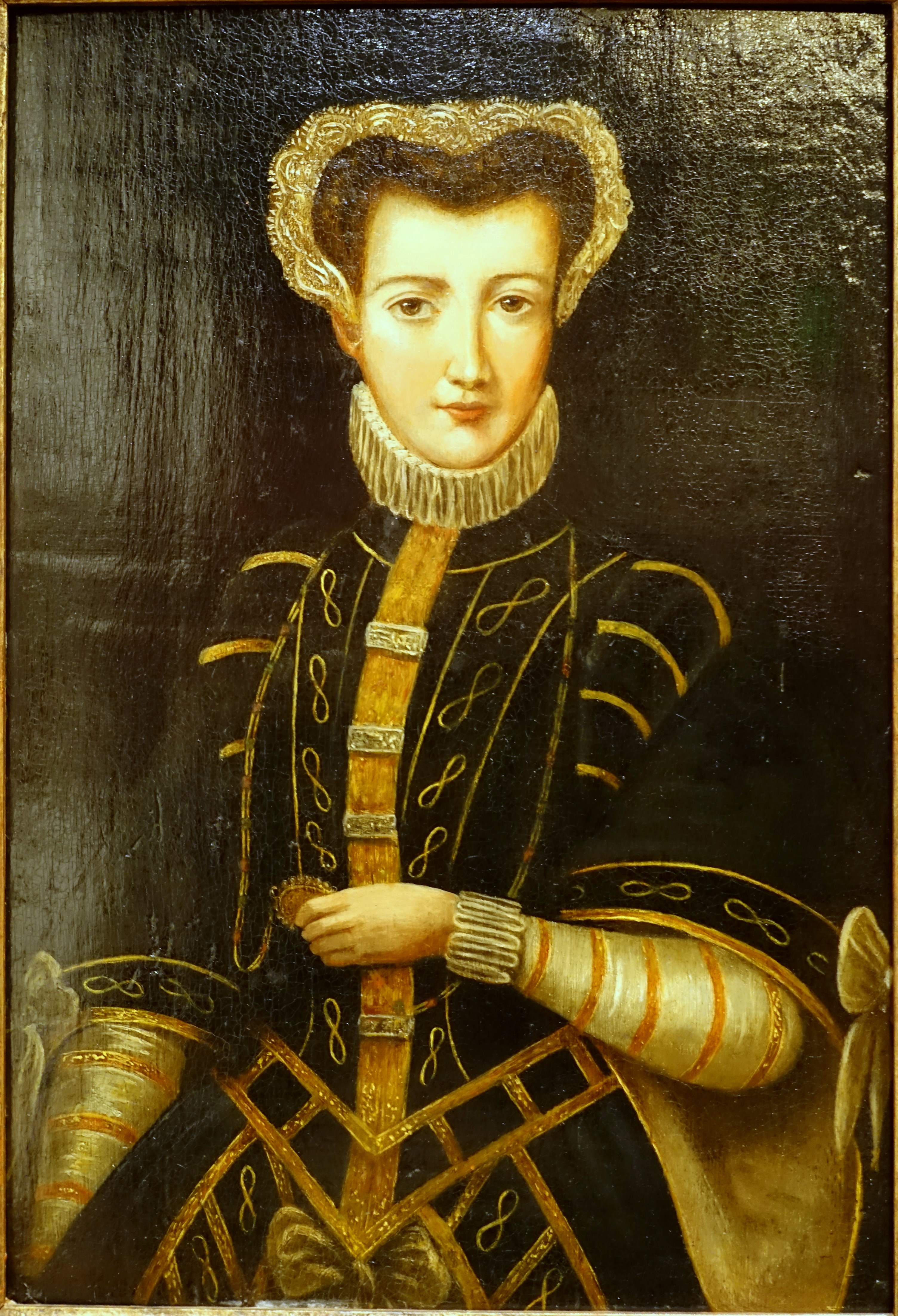 Exhibit in the Jordan Schnitzer Museum of Art, University of Oregon - Eugene, Oregon, USA.